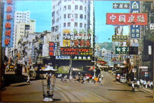 This photo shows the intersection of Johnston Road and Wan Chai Road in Wan Chai in the 1960s.